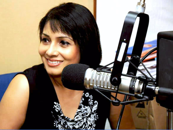 Asawari Joshi at the Audio release of 'Chala Mussaddi - Office Office'